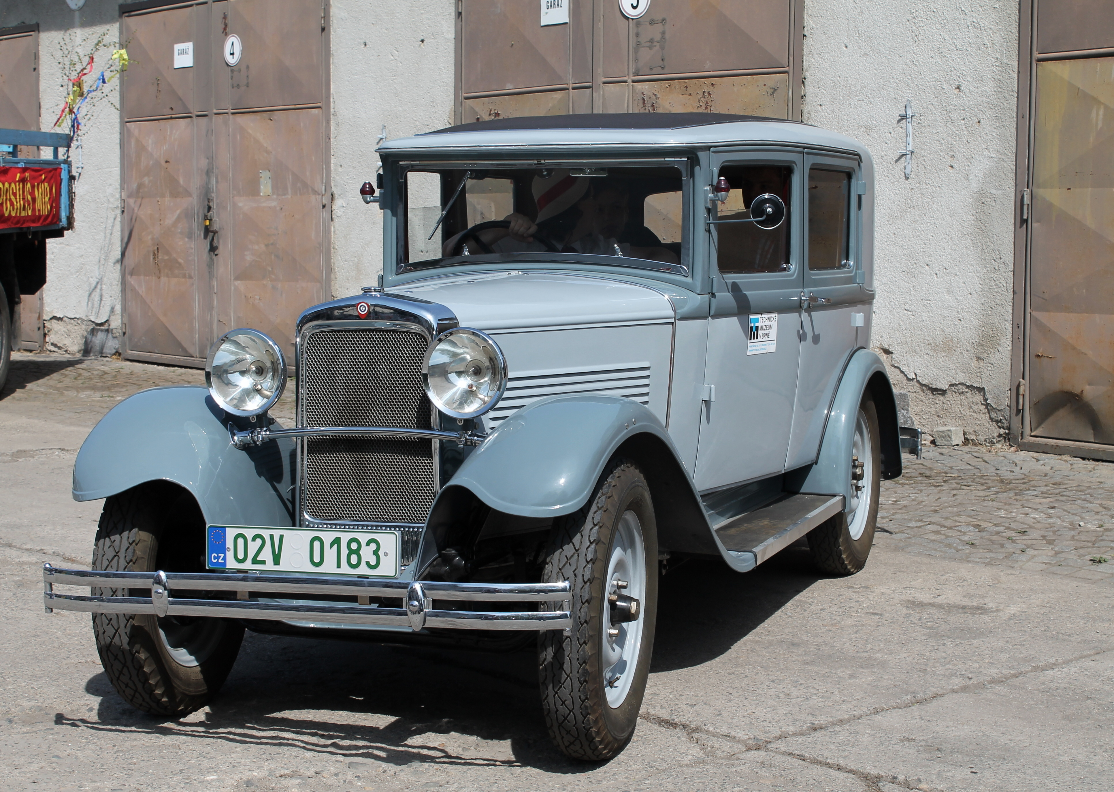 Zbrojovka Z 9 historical automobile, depository of Technical Museum in Brno, Czech Republic